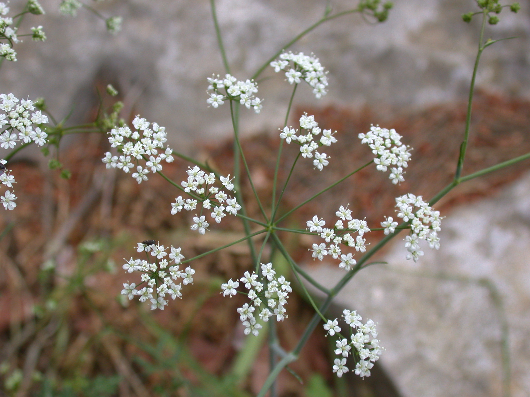 Scaligeria napiformis (Willd. ex Spreng.) Grande (סקליגריה כרתית), Mount Carmel, Israel, April 2008. Other names: Scaligeria cretica (Urb.) Boiss.